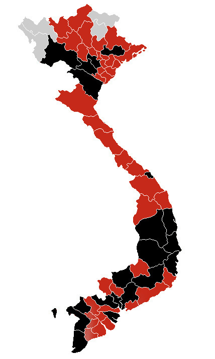 A map about the 2009 A (H1N1) flu outbreak in Vietnam. Confirmed deaths Confirmed cases Suspect cases No cases